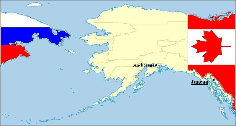 Clear map of U.S.A enclave, Alaska - for free use and modifying.